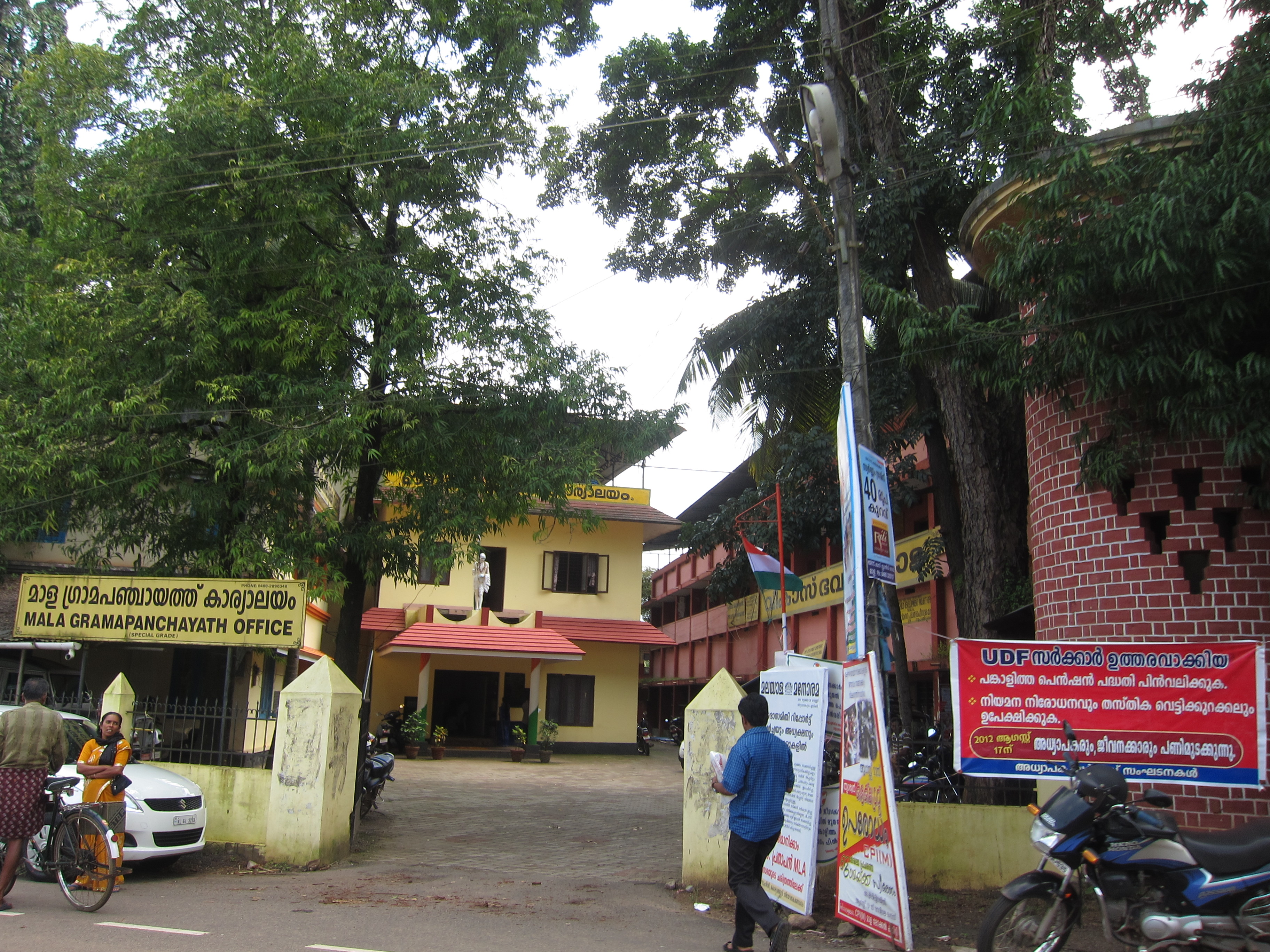 Mala Gramapanchayath-മാള ഗ്രാമ പഞ്ചായത്ത് Thrissur District